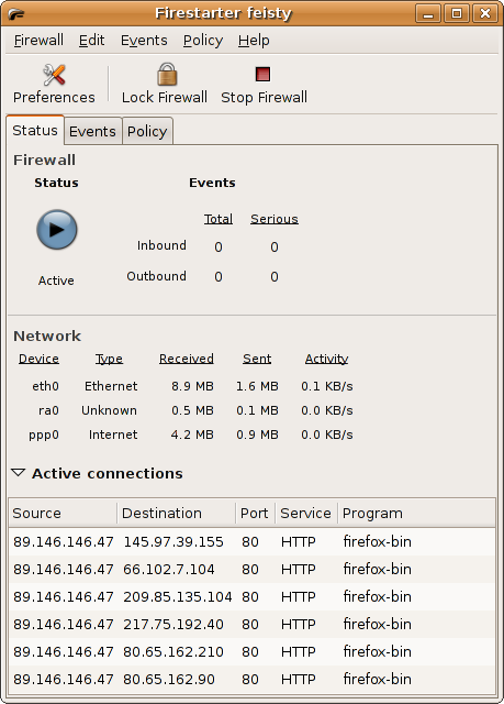 Firestarter firewall in Ubuntu Feisty Fawn.